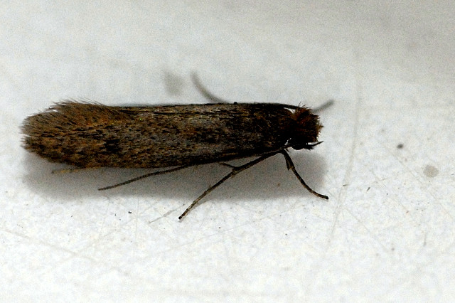 Tinea pellionella from Commanster, Belgian High Ardennes .